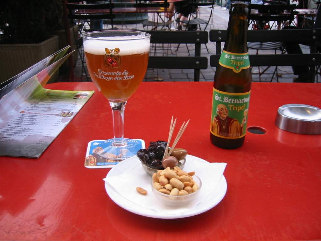 Biere trappsiste d'abbaye St Bernardus